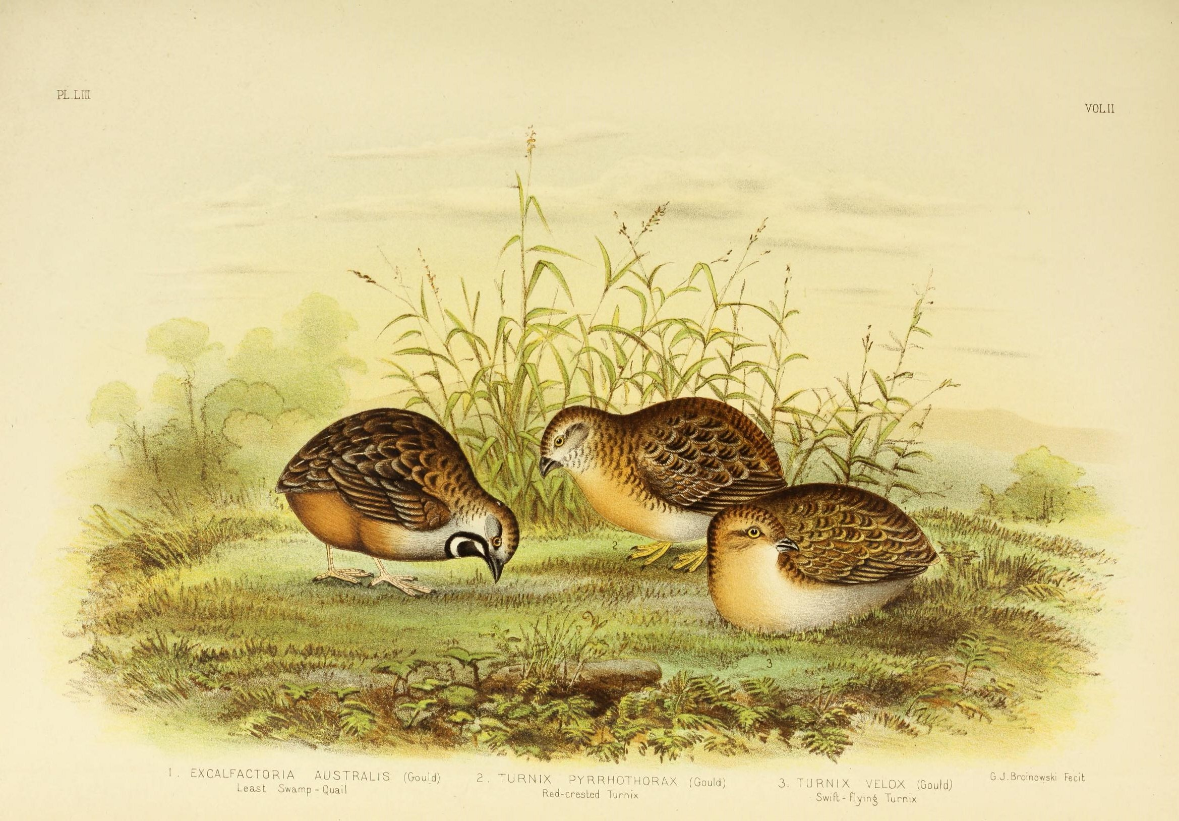 The birds of Australia